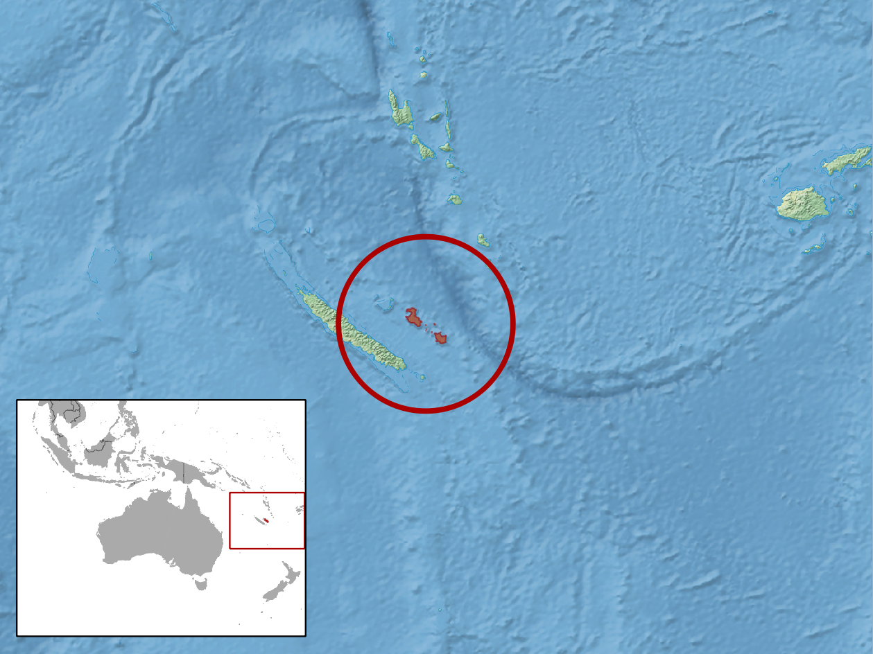 geographic distribution of Emoia loyaltiensis'